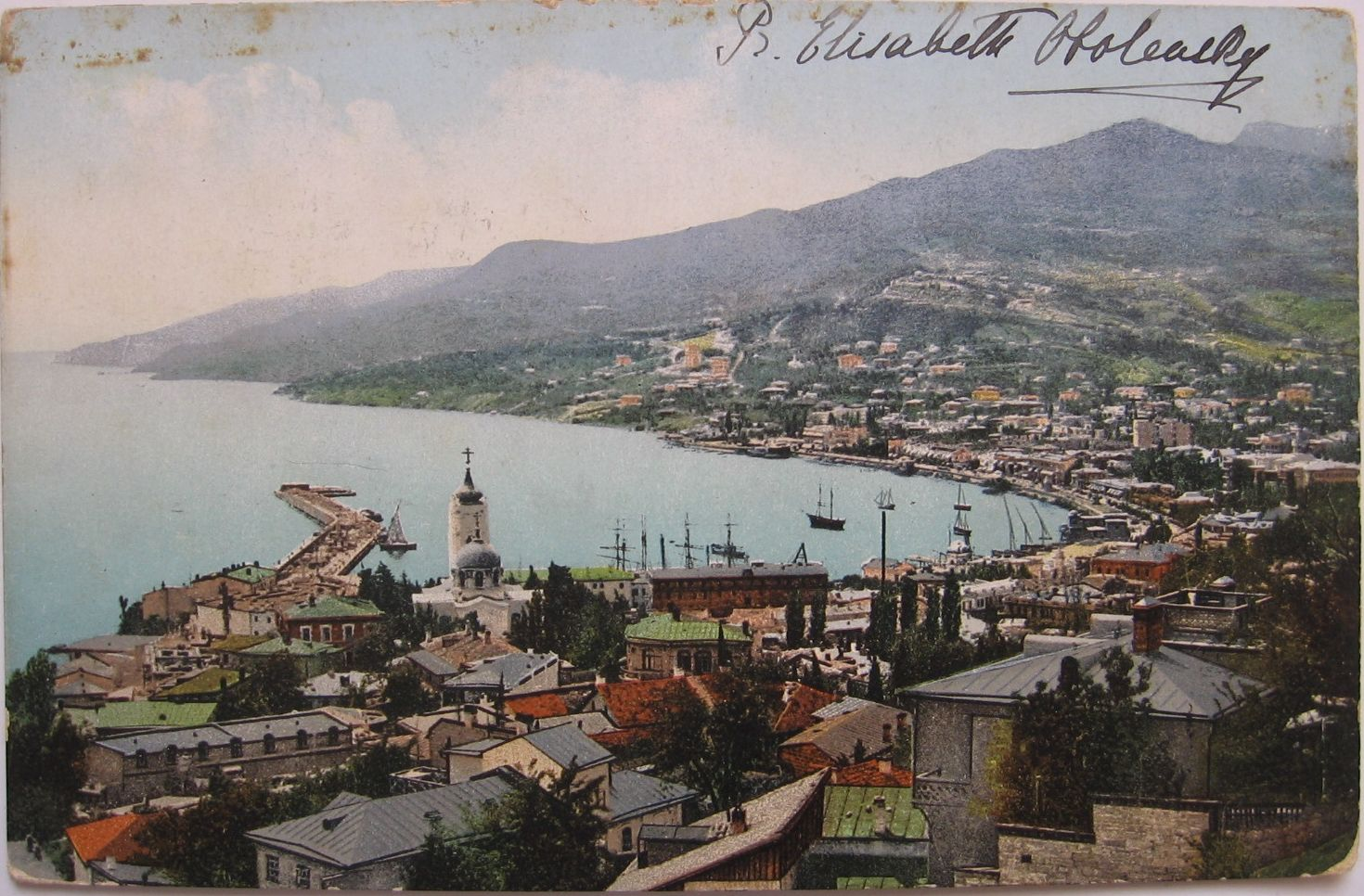 View of Yalta town. Post Card (Open Letter) of early XX century